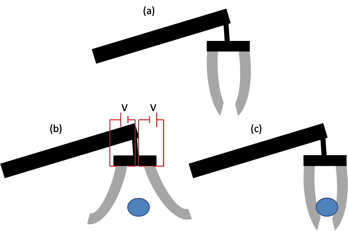 Cartoon Drawing of an EAP gripper device.